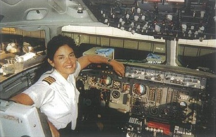 An airliner pilot.